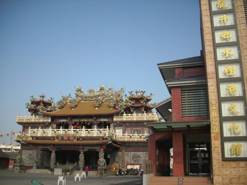 Shuiligang Culture Museum, near Fushun Temple, Longjing District, Taichung.